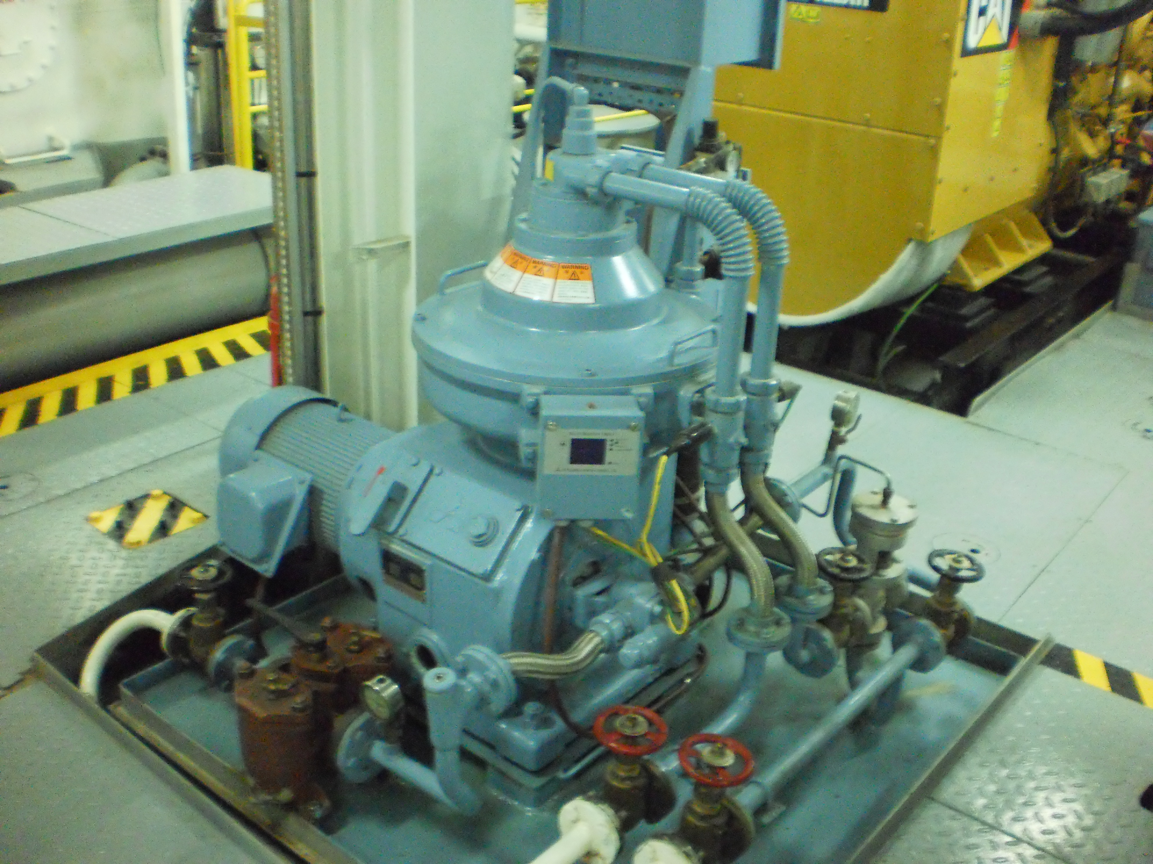 Fuel oil separator on AHTS vessel